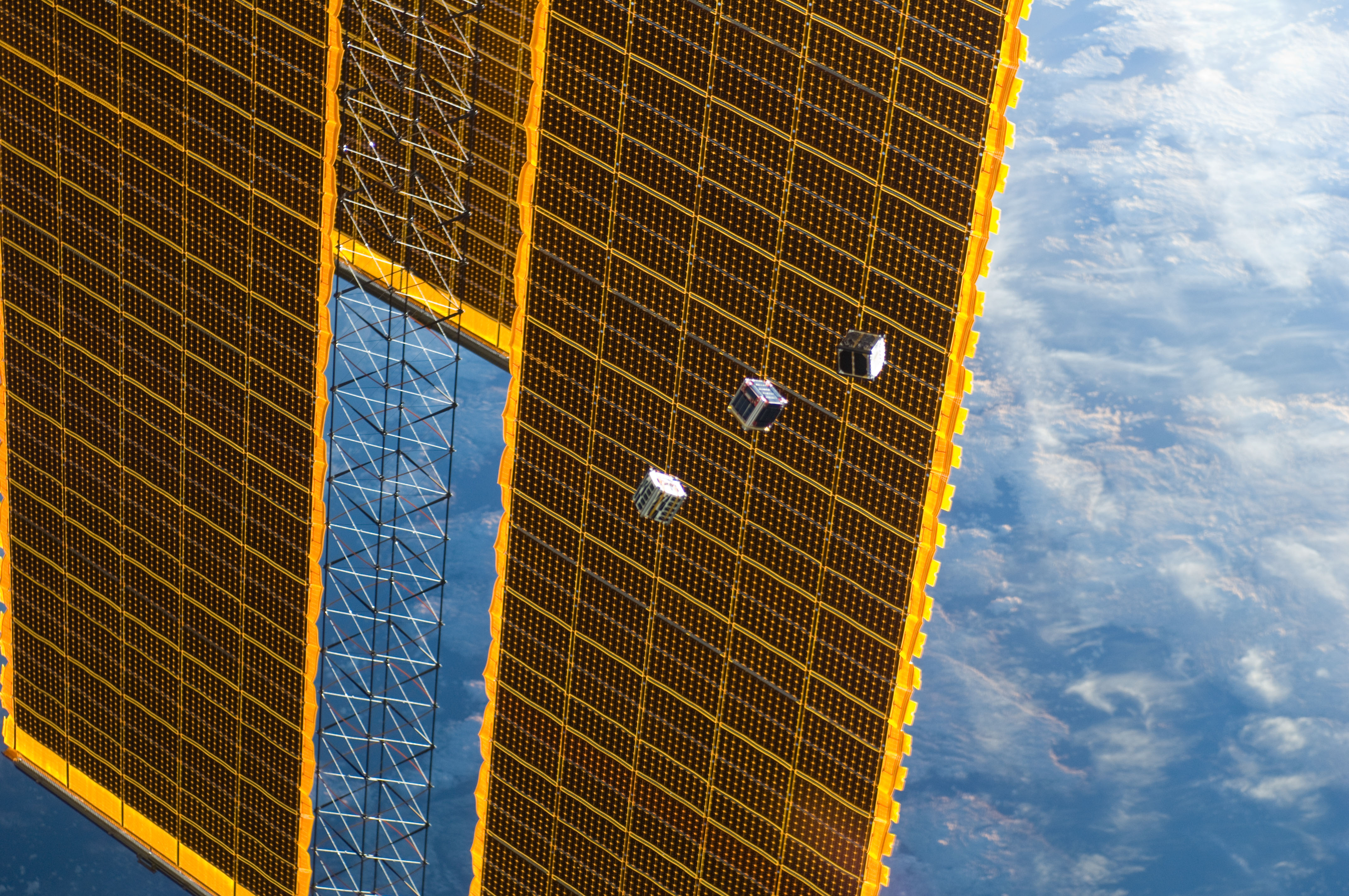 Several tiny CubeSat satellites are shown in this image photographed by an Expedition 33 crew member on the International Space Station on 4 October 2012. The satellites were released outside the Kibo laboratory using a Small Satellite Orbital Deployer attached to the Japanese module's robotic arm. Japan Aerospace Exploration Agency astronaut Aki Hoshide, flight engineer, set up the satellite deployment gear inside the laboratory and placed it in the Kibo airlock. The Japanese robotic arm then grappled the deployment system and its satellites from the airlock for deployment. A portion of the station's solar array panels and a blue and white part of the earth provide the backdrop for the scene.